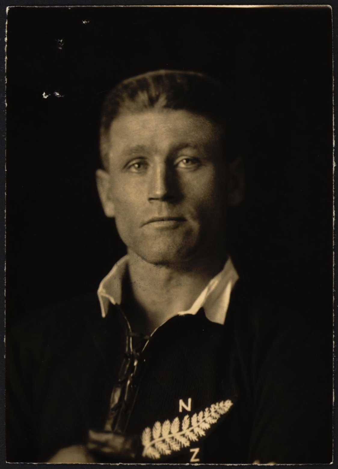 ACGO 8333 IA1 1349 / 15/11/17721 Maurice Brownlee passport photo (1924)